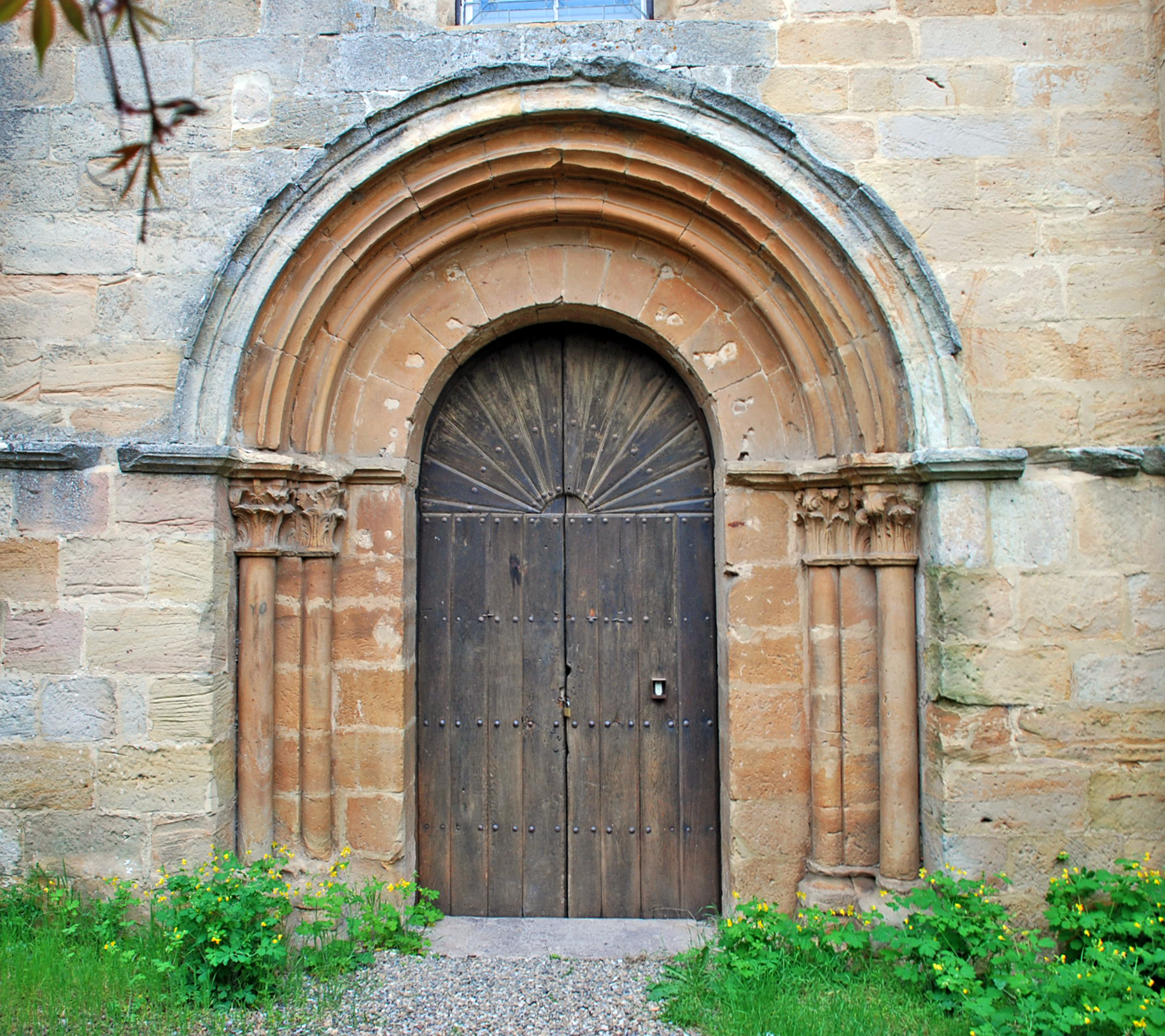 Romanesque portal of the Monastery of Santa María la Real in Aguilar de Campoo (Palencia, Castile and León).